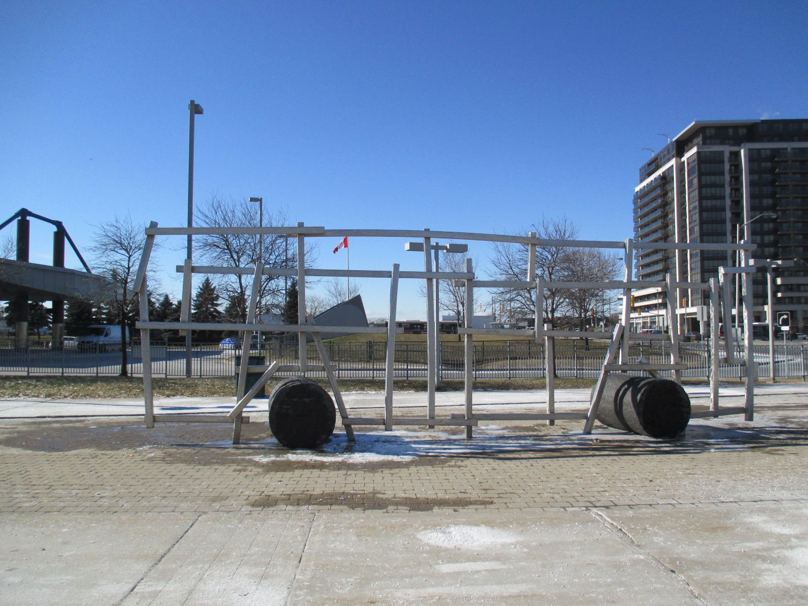 Public art at the entrance to Downsview subway station in Toronto. Boney Bus by John McKinnon